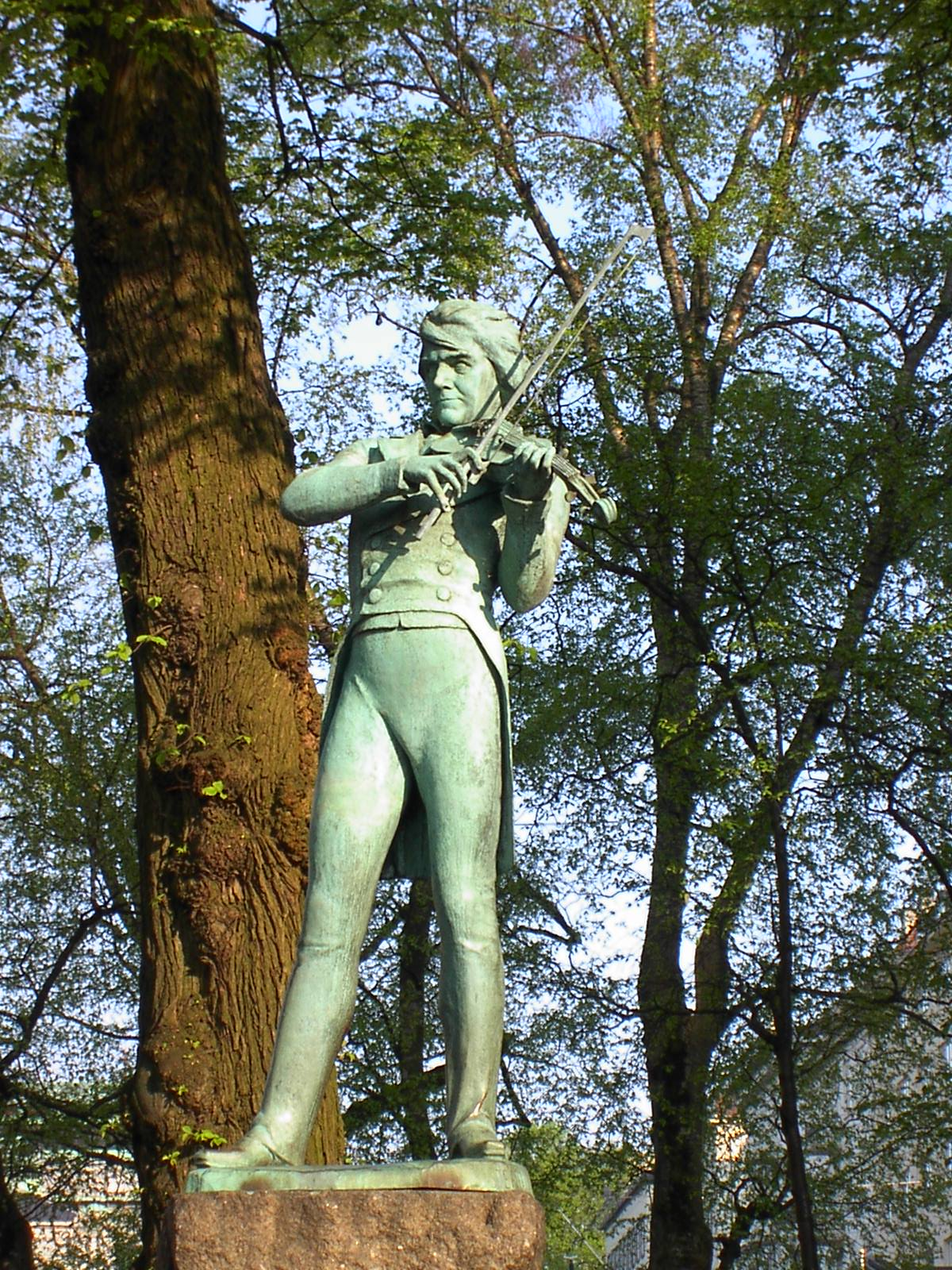 Sculpture Ole Bull by Stephan Sinding in Bergen/Norway